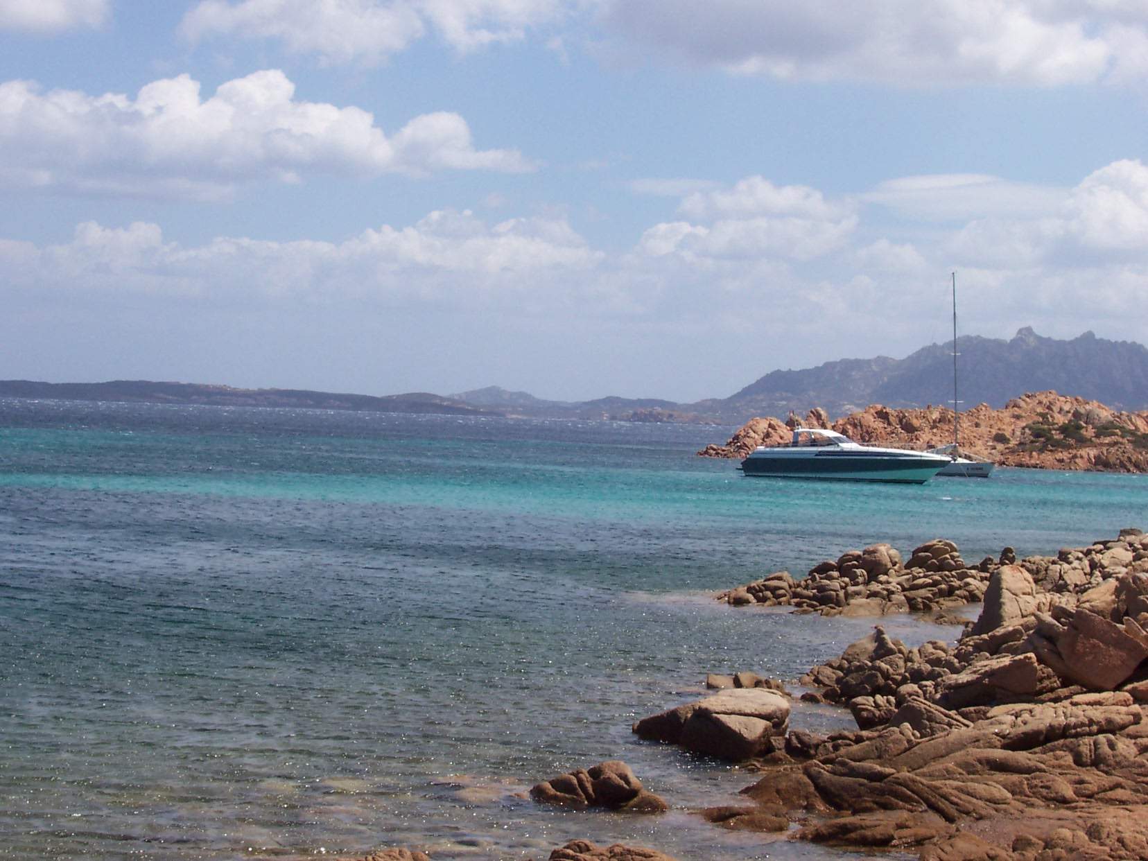 The Maddalena